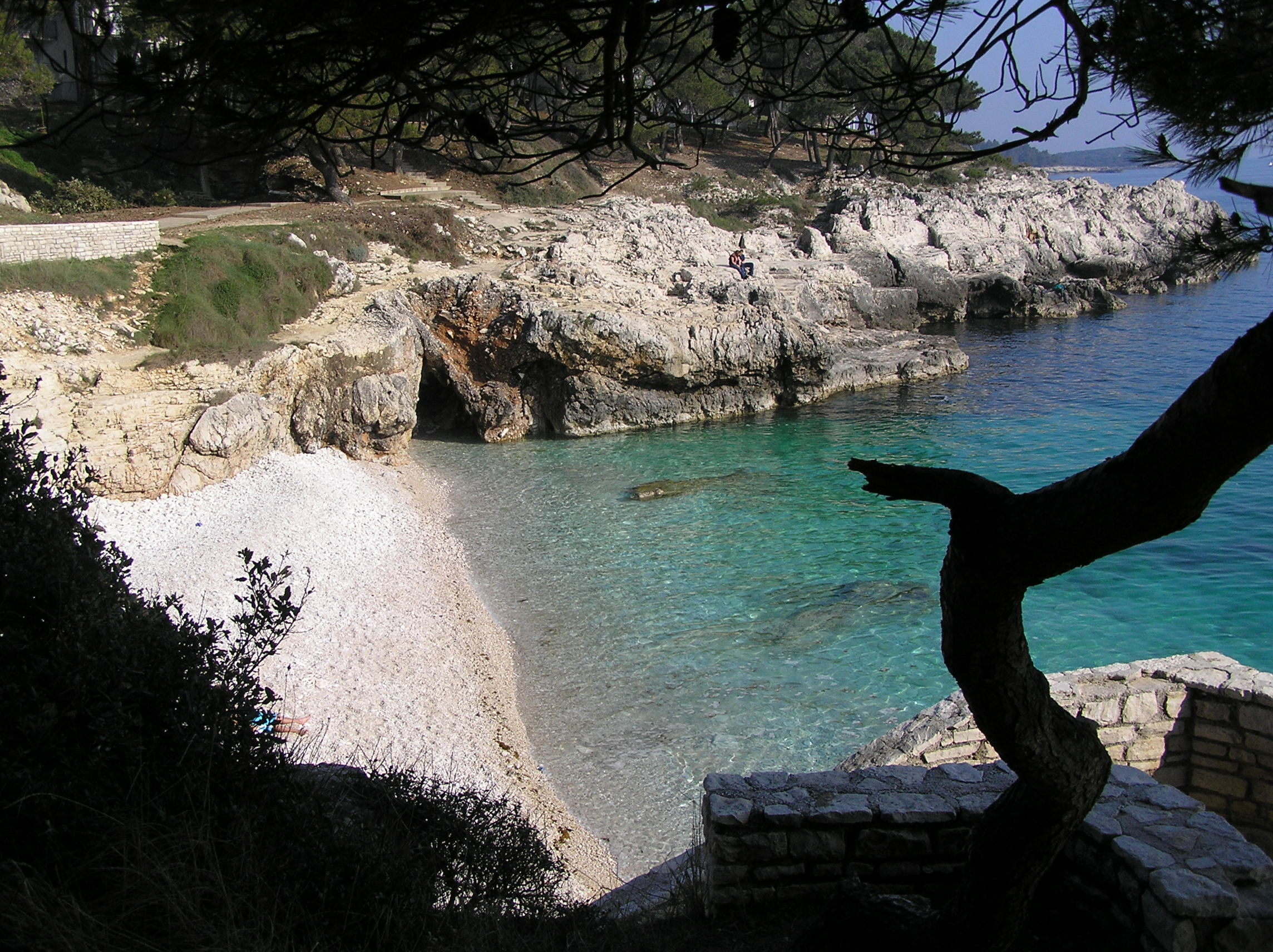 A beach in Pula, Croatia self-made